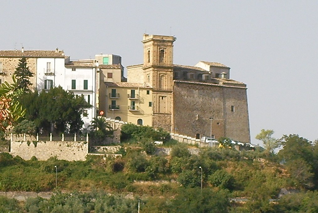 Side view of the church of Santa Croce on the right extremity of Atessa